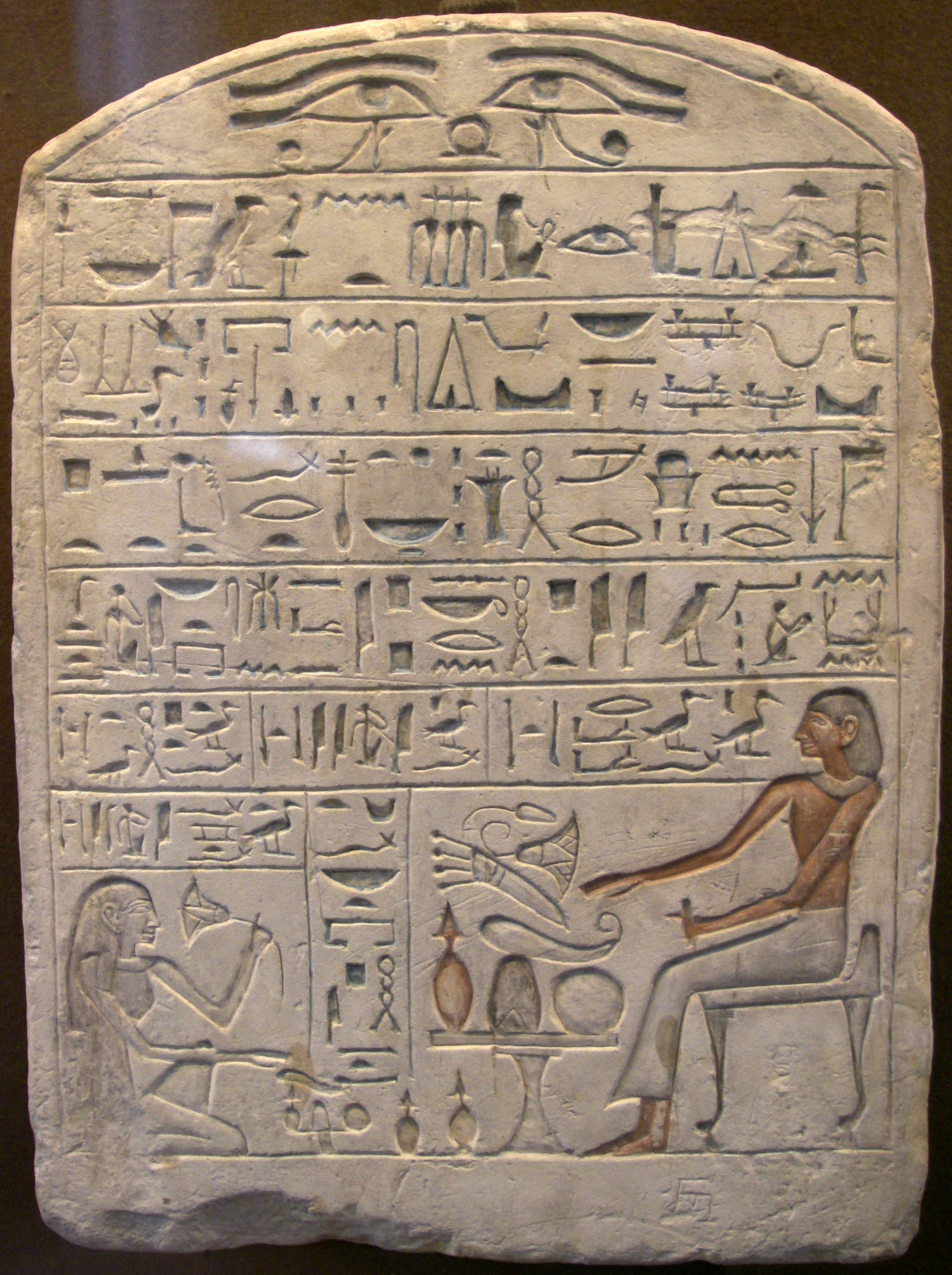 Stela of Pepi, chief of the potters; limestone, XVIII century B.C. (~12. dynasty), Saint Petersburg, Russia.5-1/2 lines of hieroglyphs-(reading right-to-left):Line 1–An offering the king gives to Osiris; Foremost of the Westerners; the Great God of Abydos...Line 2–...Abydos, and Wepwawet; Lord of the Sacred Lands, that he may be given a voice offering of bread, beer, oxen, geese, linen, clothesLine 3–incense, and oils. The good things the priestess will offerLine 4–to the soul of the Overseer of the Potters, Nehy-Ptah-Sokar-en-Pepy, and lady of the house, TimatLine 5–and his son, Redidi, the justified. His daughter, Isuri, the justified. His daughter, Hetsa, the justifiedLine 6–His wife, lady of the house; Hepi, the justifiedLine 7–His beloved daughter, Iti, the justified.